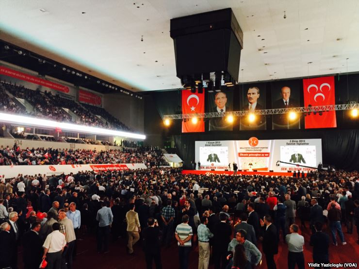 The Turkish Nationalist Movement Party (MHP) announcing their election manifesto ahead of the 1 November 2015 general election, on 3 October 2015.